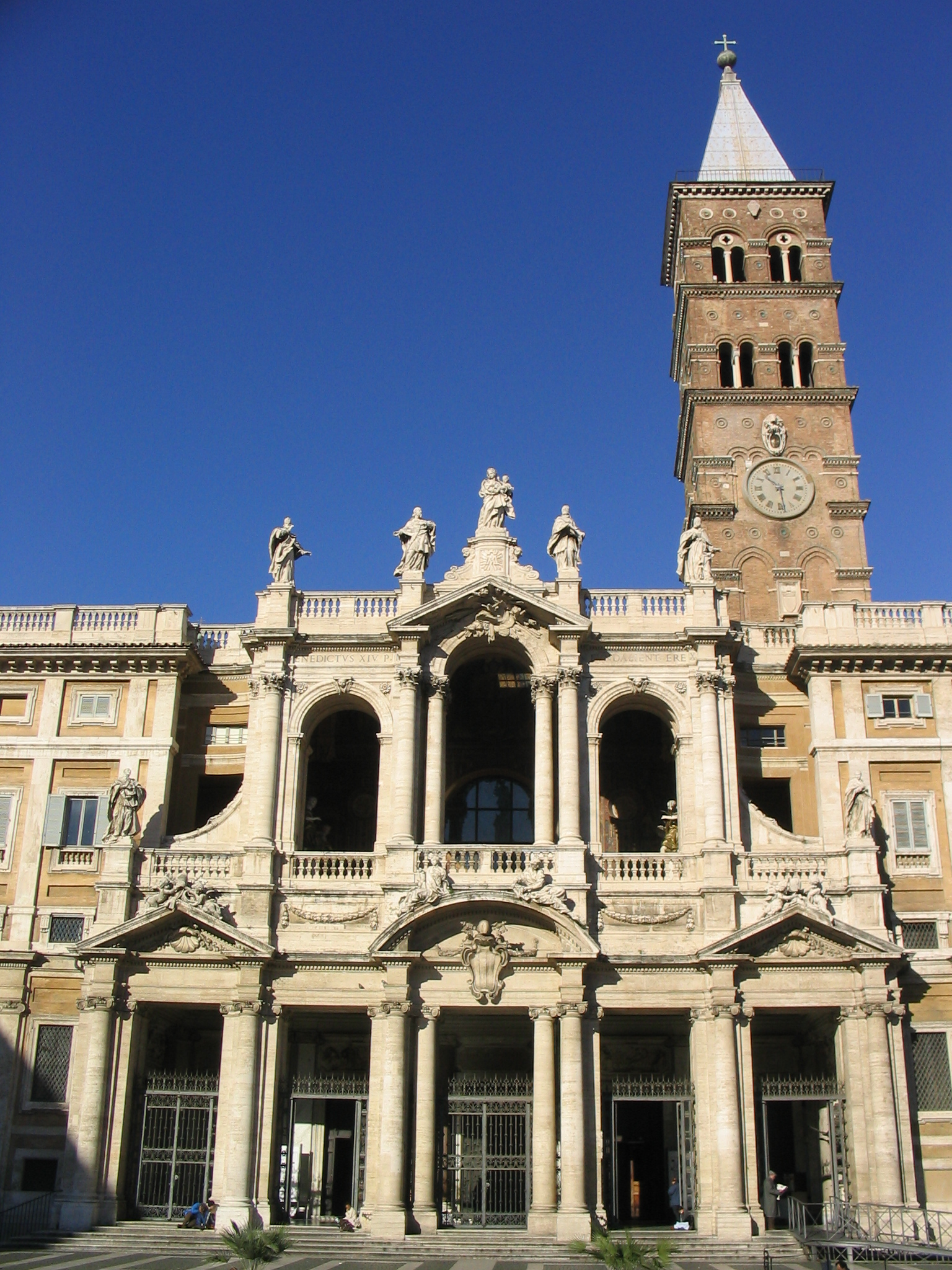 Photo taken by Jack Curran, December 2005